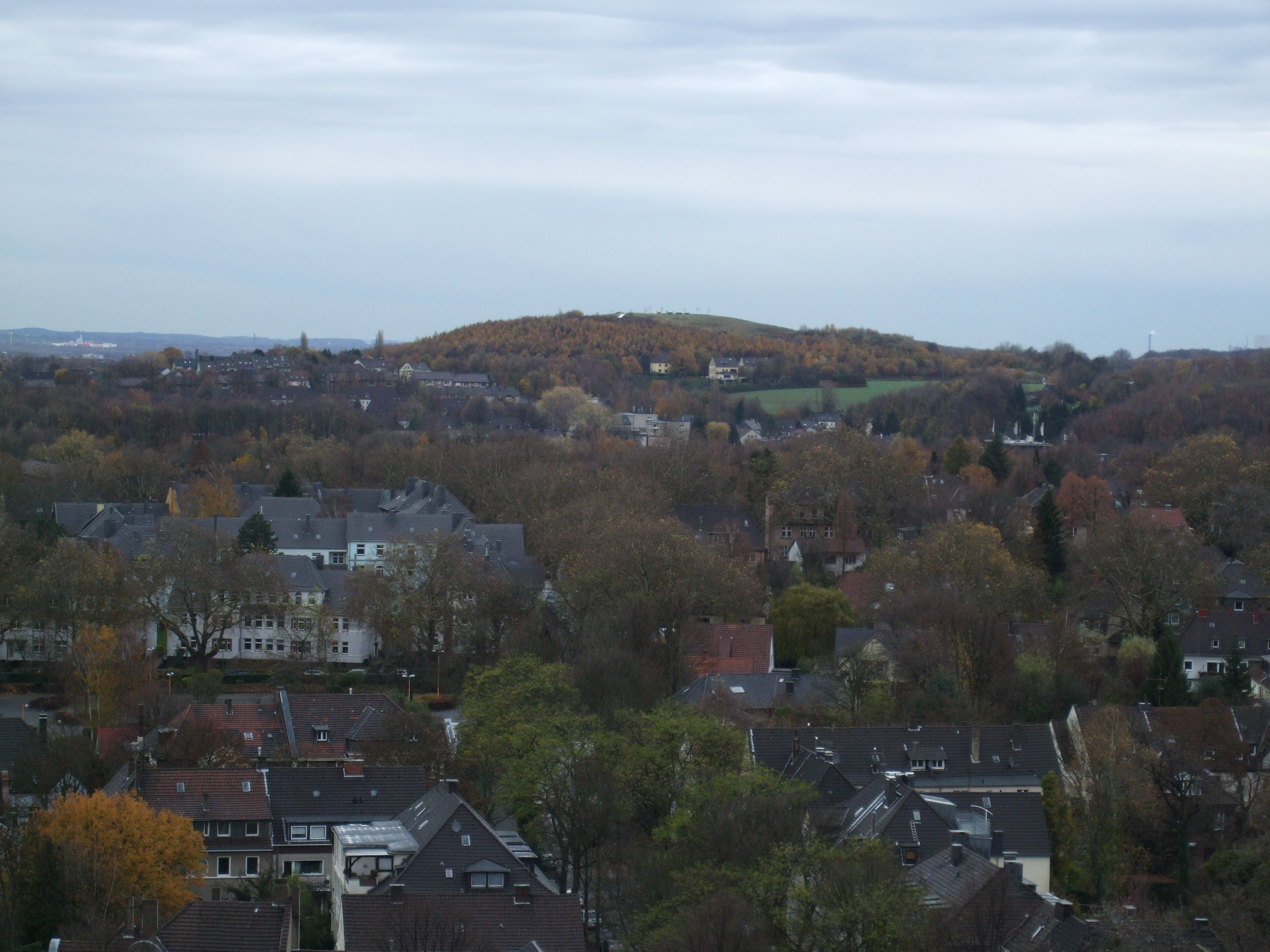 Tippelsberg in the north of Bochum, viewed from Bergbaumuseum.